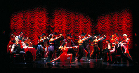 Picture of the musical Tanguera